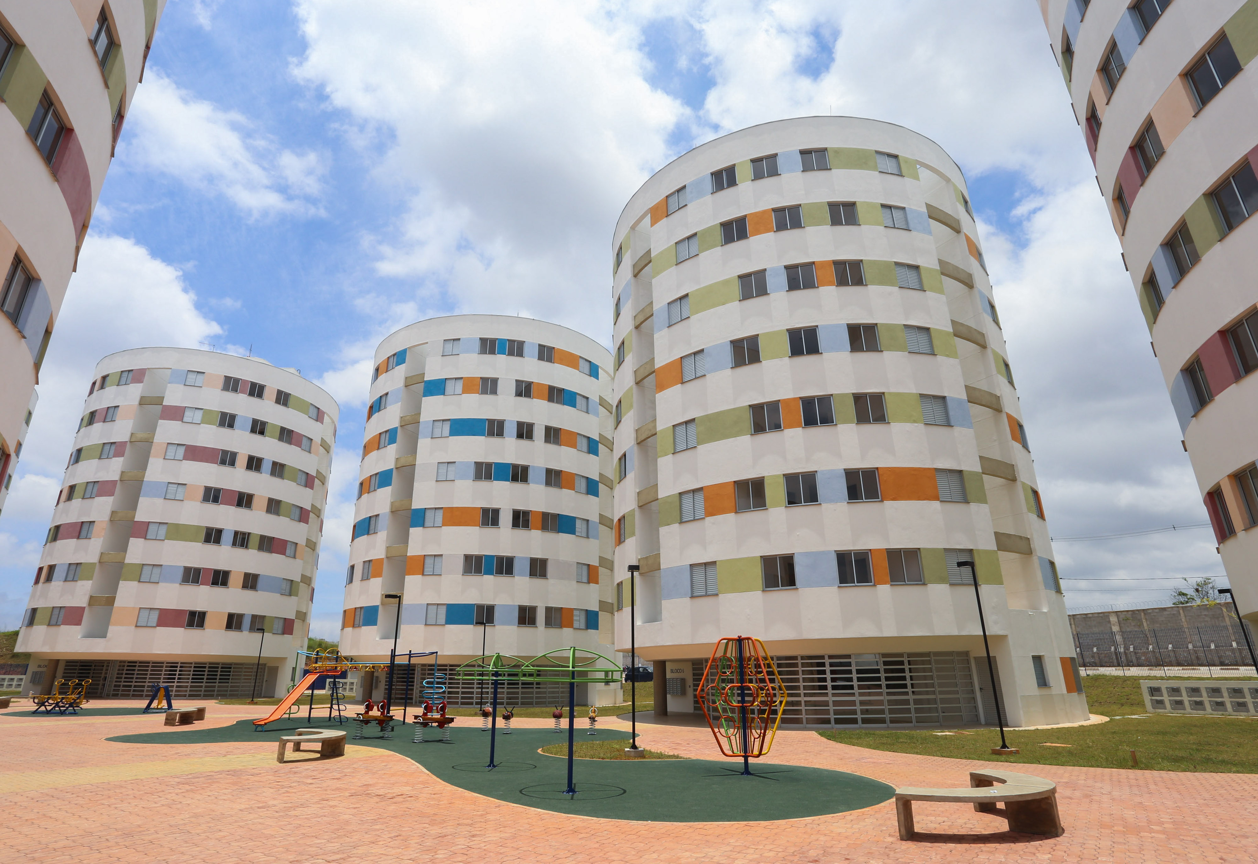 O governador do Estado de São Paulo e o prefeito de São Paulo, João Doria, entregam 240 unidades habitacionais em Heliópolis. Local: São Paulo/SP Data: 05/12/2017 Foto: Gilberto Marques/A2img